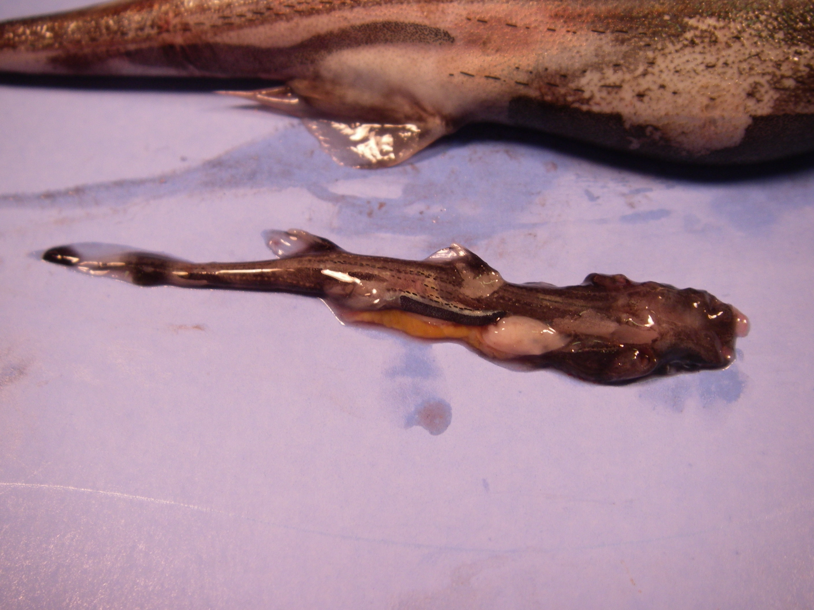 Pup of green lanternshark (Etmopterus virens) from Gulf of Mexico